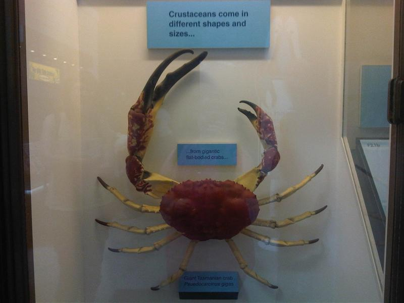 Tasmanian giant crab or giant deepwater crab (Pseudocarcinus gigas) at the Natural History Museum in London, England.